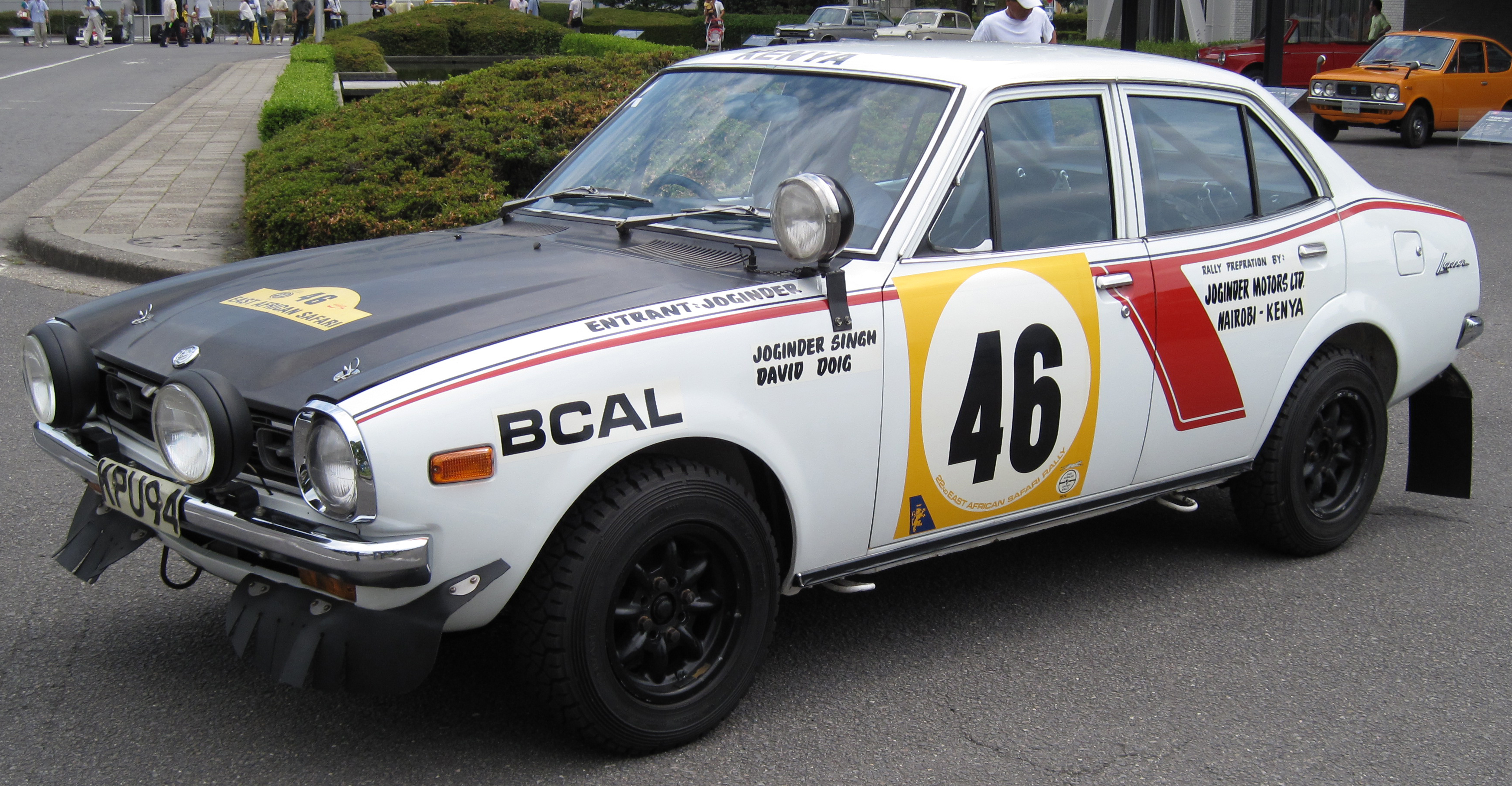 This is a photo of a Lancer used in the Safari Rally. I took the picture outside the museum for the Mitsubishi "Passenger Car Engineering Center" in Okazaki-city, Aichi, Japan. See also the signboard .